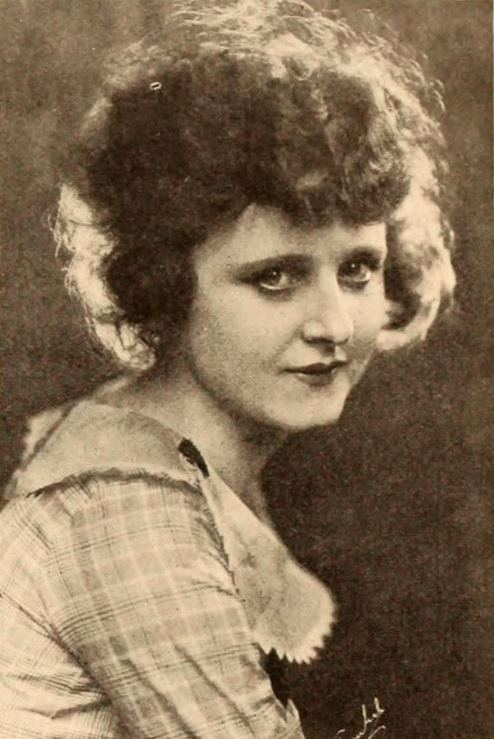 Actress Bartine Burkett, on page 85 of the August 21, 1920 Exhibitors Herald